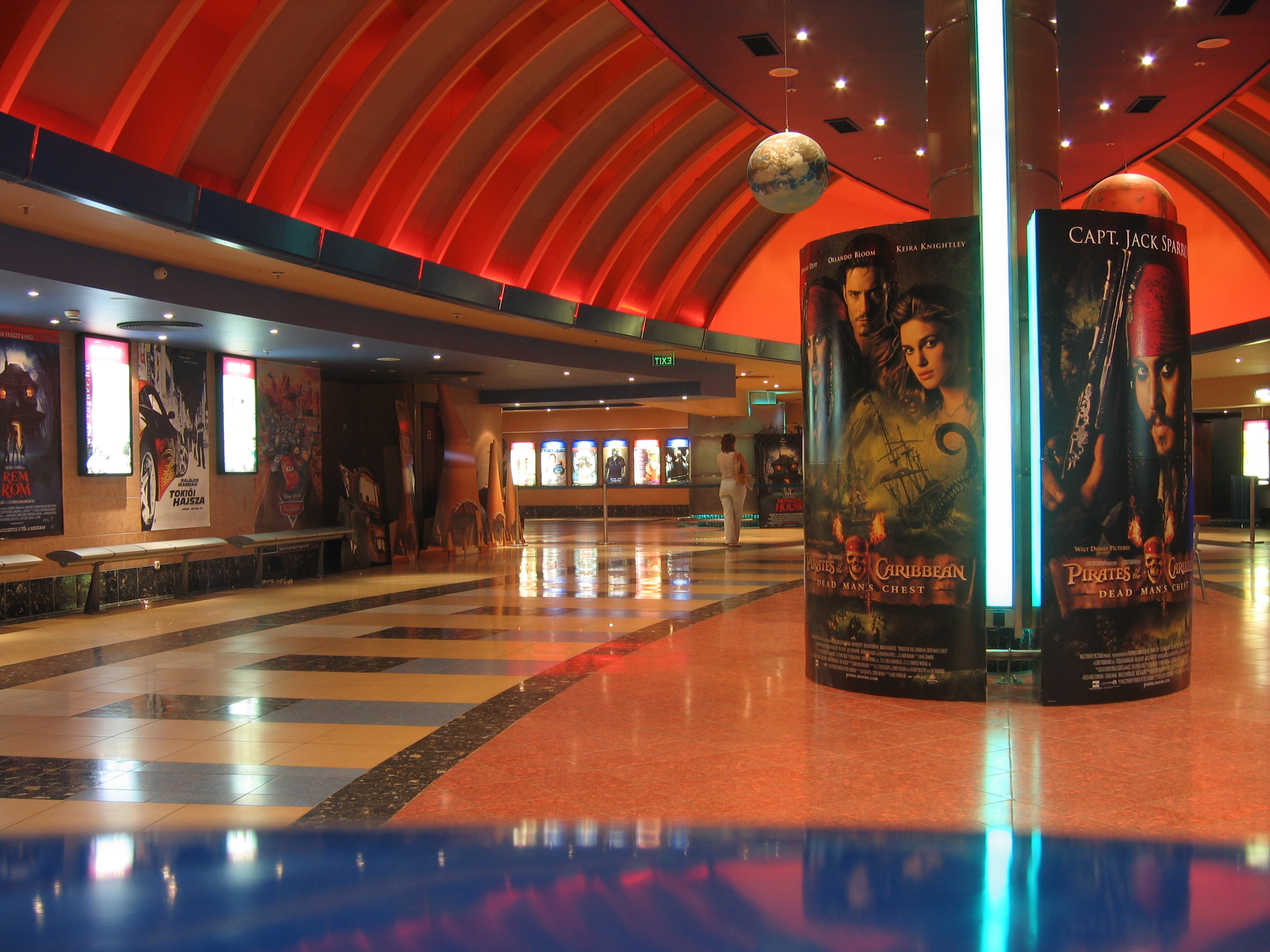 Cinema in Budapest.